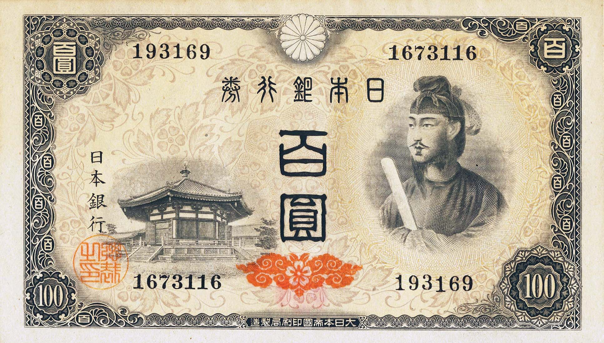 Series A 100 Yen Bank of Japan note. Portrait: Prince Shōtoku. Yumedono (Hall of Dreams) at Hōryū-ji temple, Nara prefecture. First issued in 1946. Issue suspended in 1956. Legal tender. 162mm x 93mm